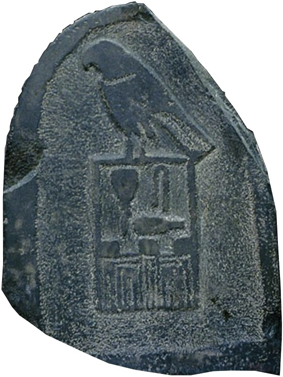 Tomb stele of Semerkhet